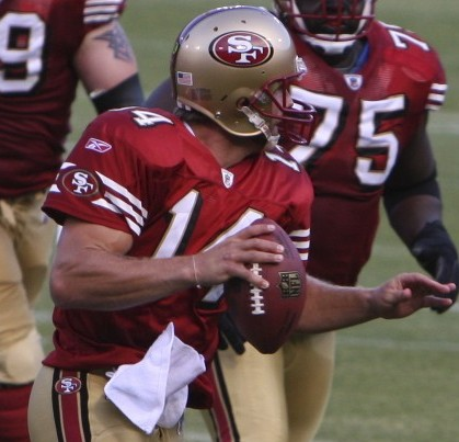 San Francisco 49ers quarterback J. T. O'Sullivan scanning the field in a 2008 preseason game against the Green Bay Packers.